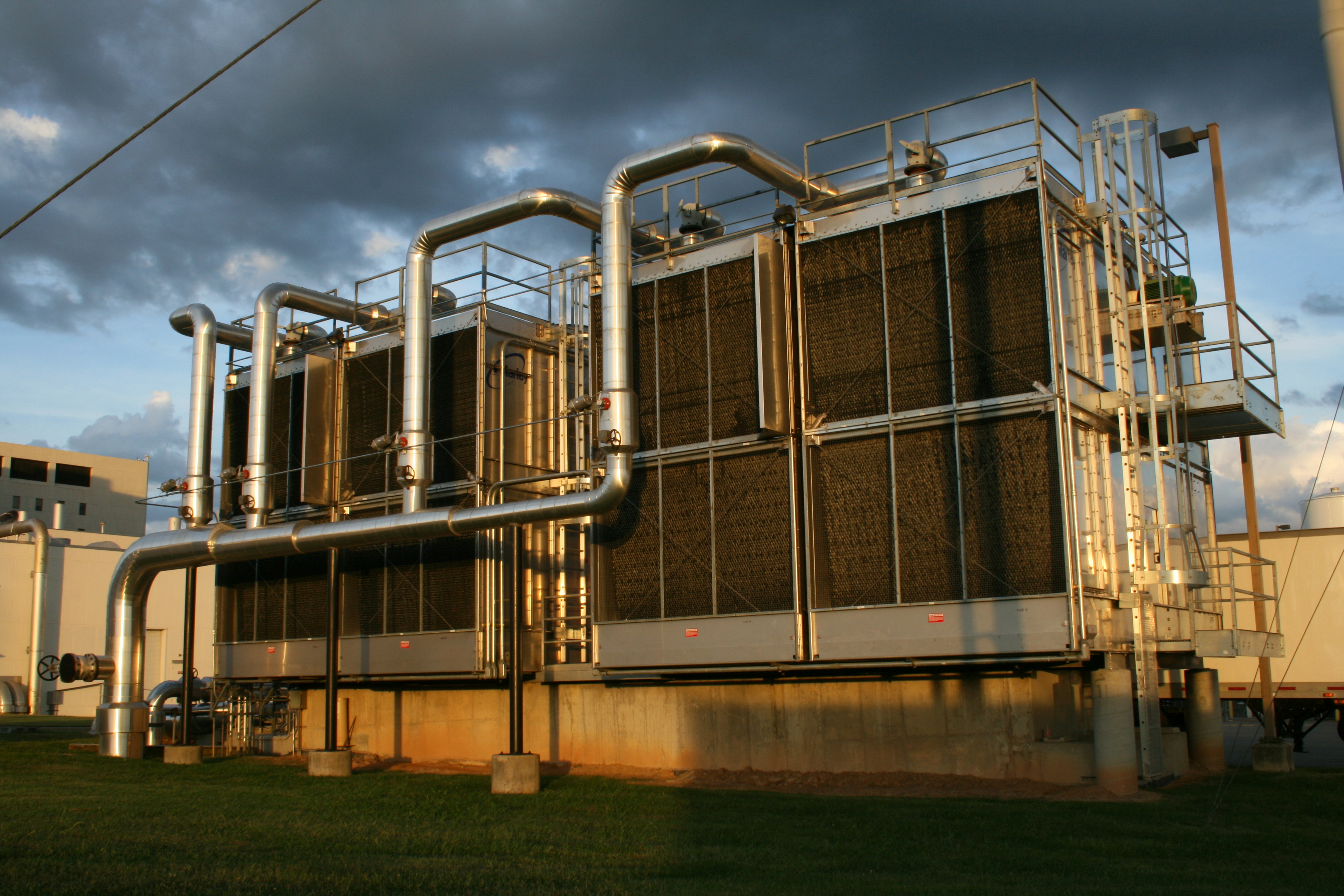 Industrial air conditioning unit outside Durham Regional Hospital in Durham, North Carolina.